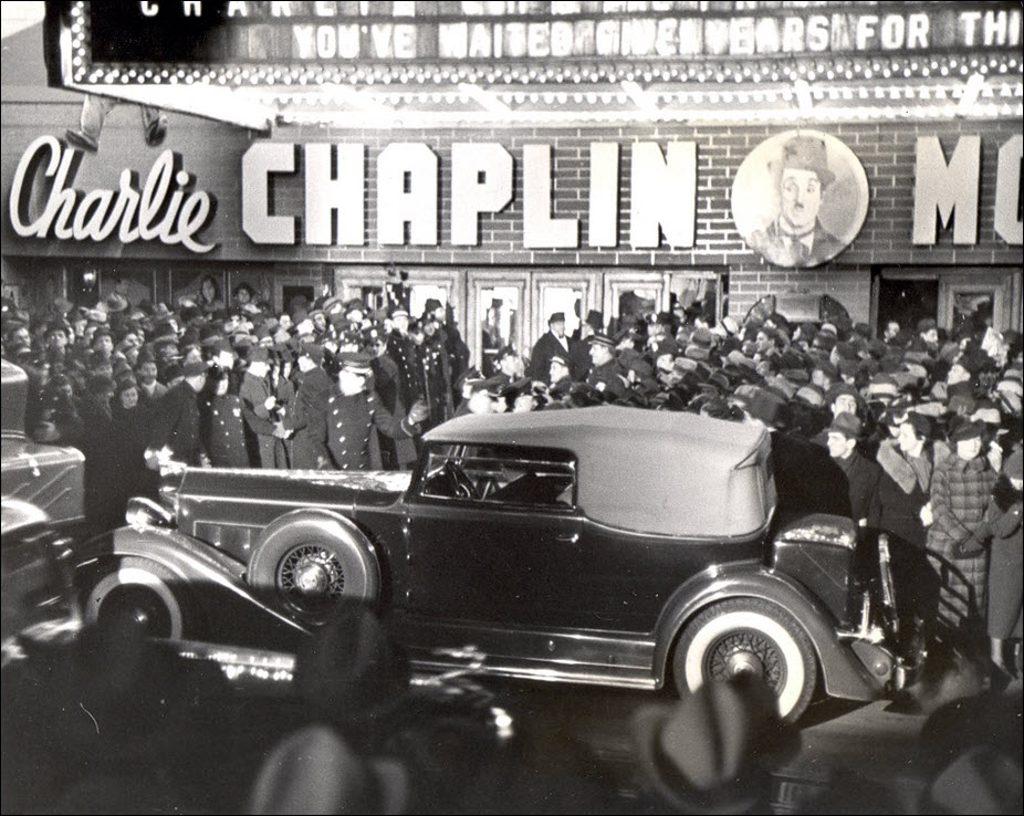 Photo of movie premiere for Modern Times